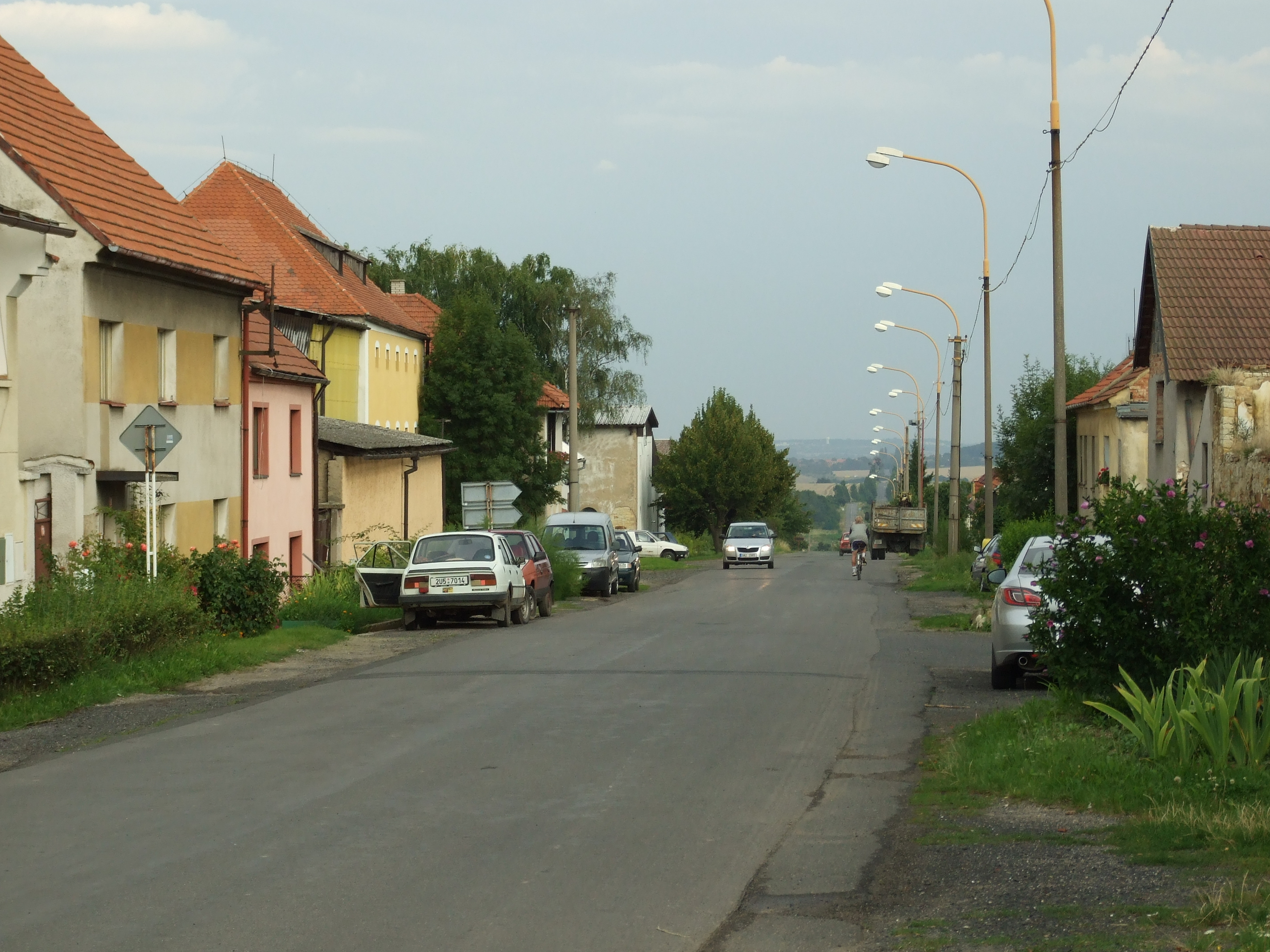 Main road in the town of Panenský Týnec, Ústí nad Labem Region, CZ